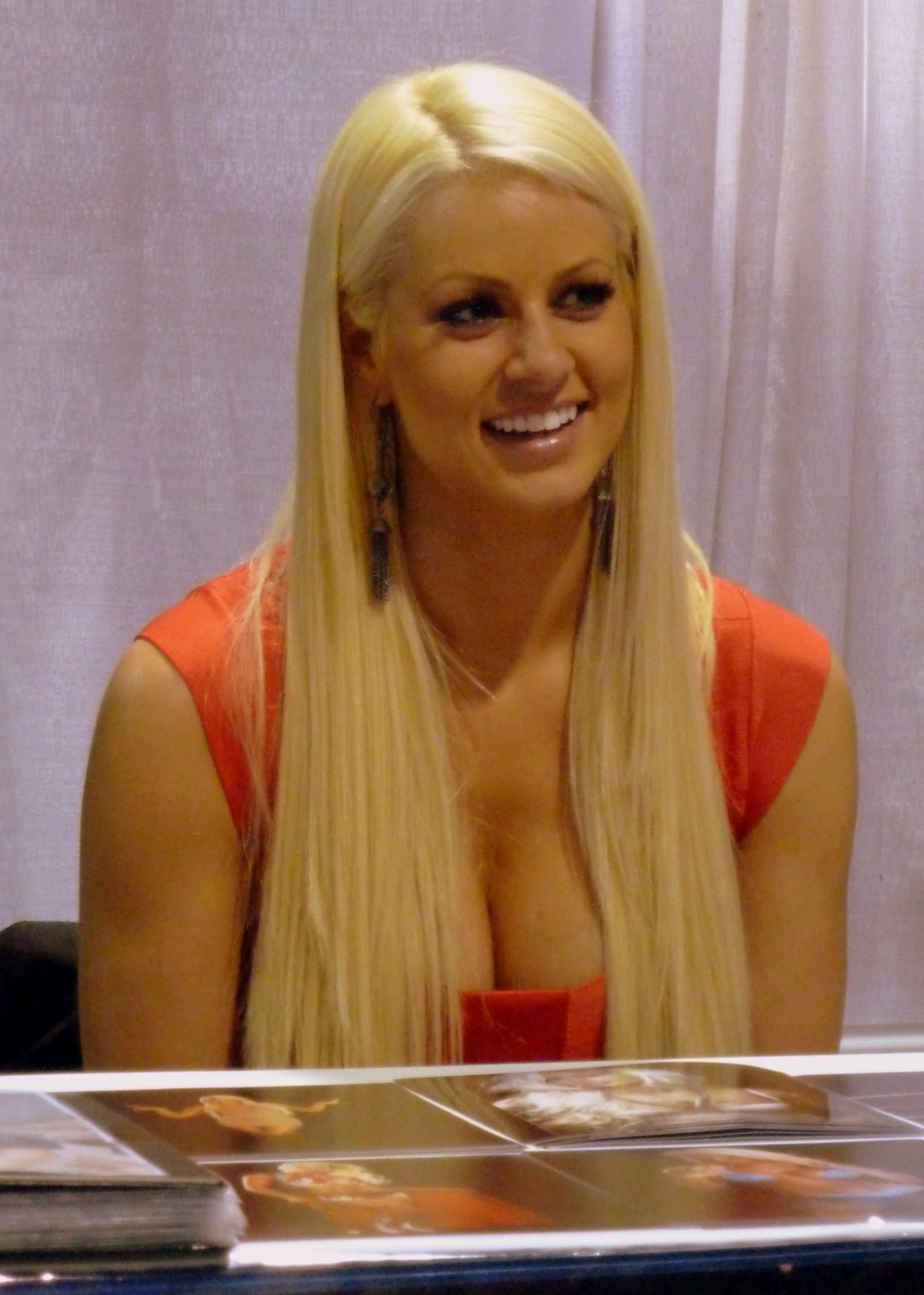 Maryse Ouellet 02 Guests at Wizard World Chicago 2012.